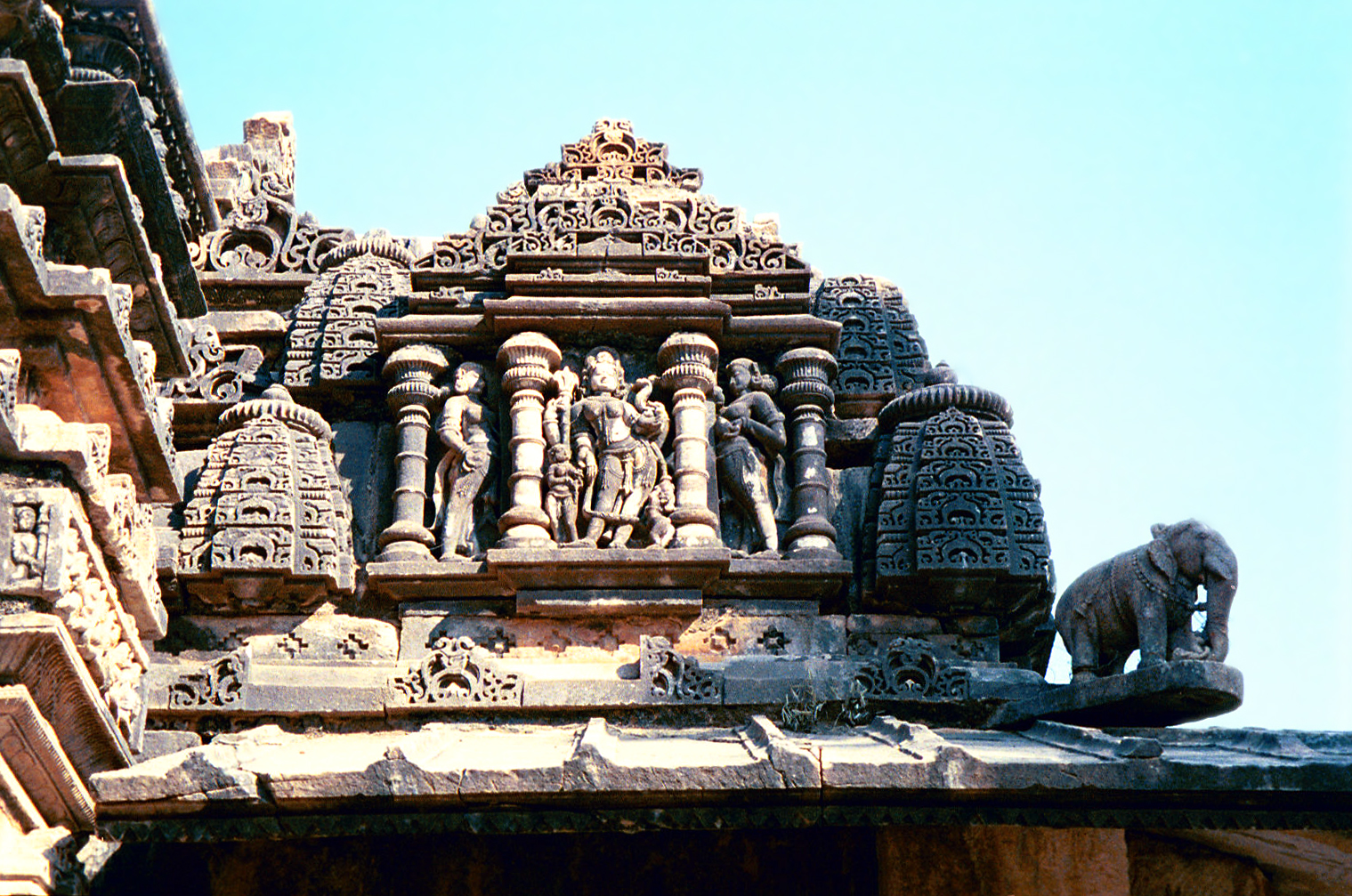 This roof sculpture portrays a celestial palace in the mountains, with deities and attendants. The architecture of the mountain palace, as the heavenly abode of the gods, echoes the temple which is their earthly residence. The palace tower is decorated with intricate horseshoe-shaped gavaksha arch-motifs, and is surrounded by small model shikhara towers that represent the surrounding mountain peaks. A well-carved elephant, "walking the plank" at the corner, supplies compositional balance and interest, as well as associations with clouds (as Indra's vehicle) and royalty. In Indian temples, the form of the temple is developed fractally, by repeating its elements at different scales on the building's exterior. The palace/temple in this photo is but one of several parts that repeat the whole, and it is posssible to imagine that on its small towers are placed tiny palace/temples with even smaller towers, and so on, continuing indefinitely.